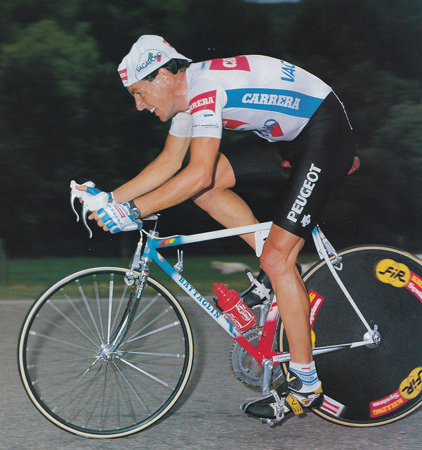 Stephen Roche riding in a time trial during the 1987 season